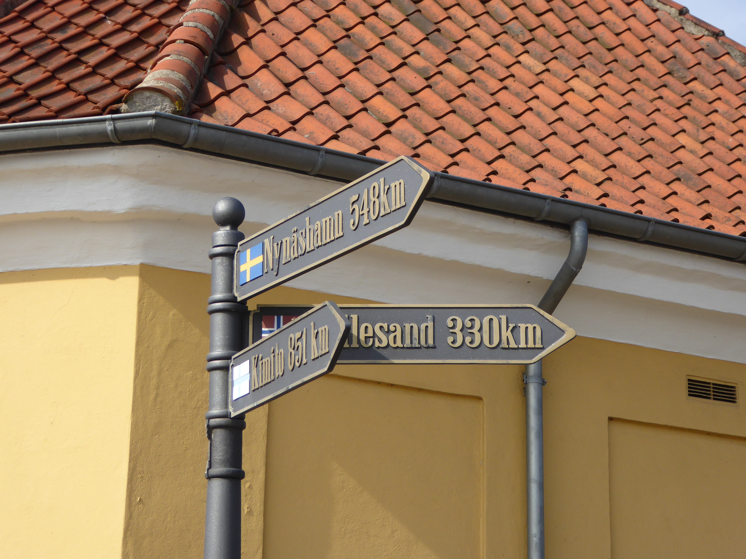 Sign in Kalundborg in Denmark showing the distances to the sister cities Nynäshamn in Sweden (548 km), Lillesand in Norway (330 km) and Kimito in Finland (851 km).